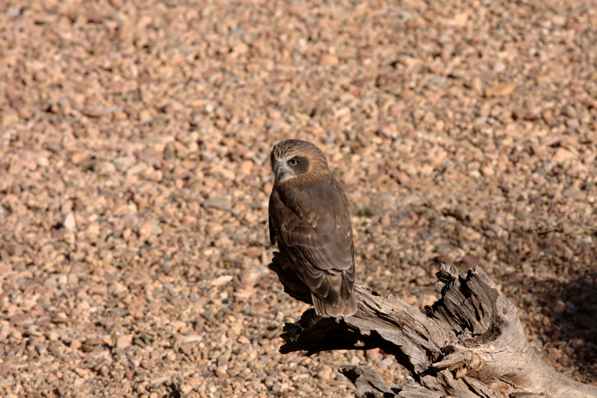 Southern Boobook Ninox boobook subspecies ocellata, in Central Australia (near Alice Springs).